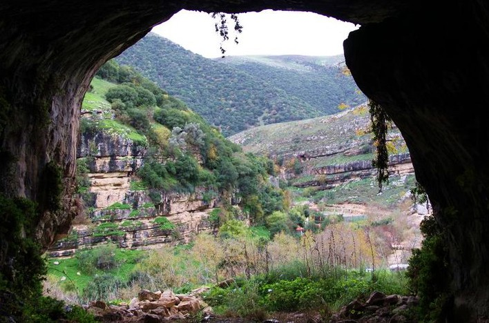 Zawtar cave